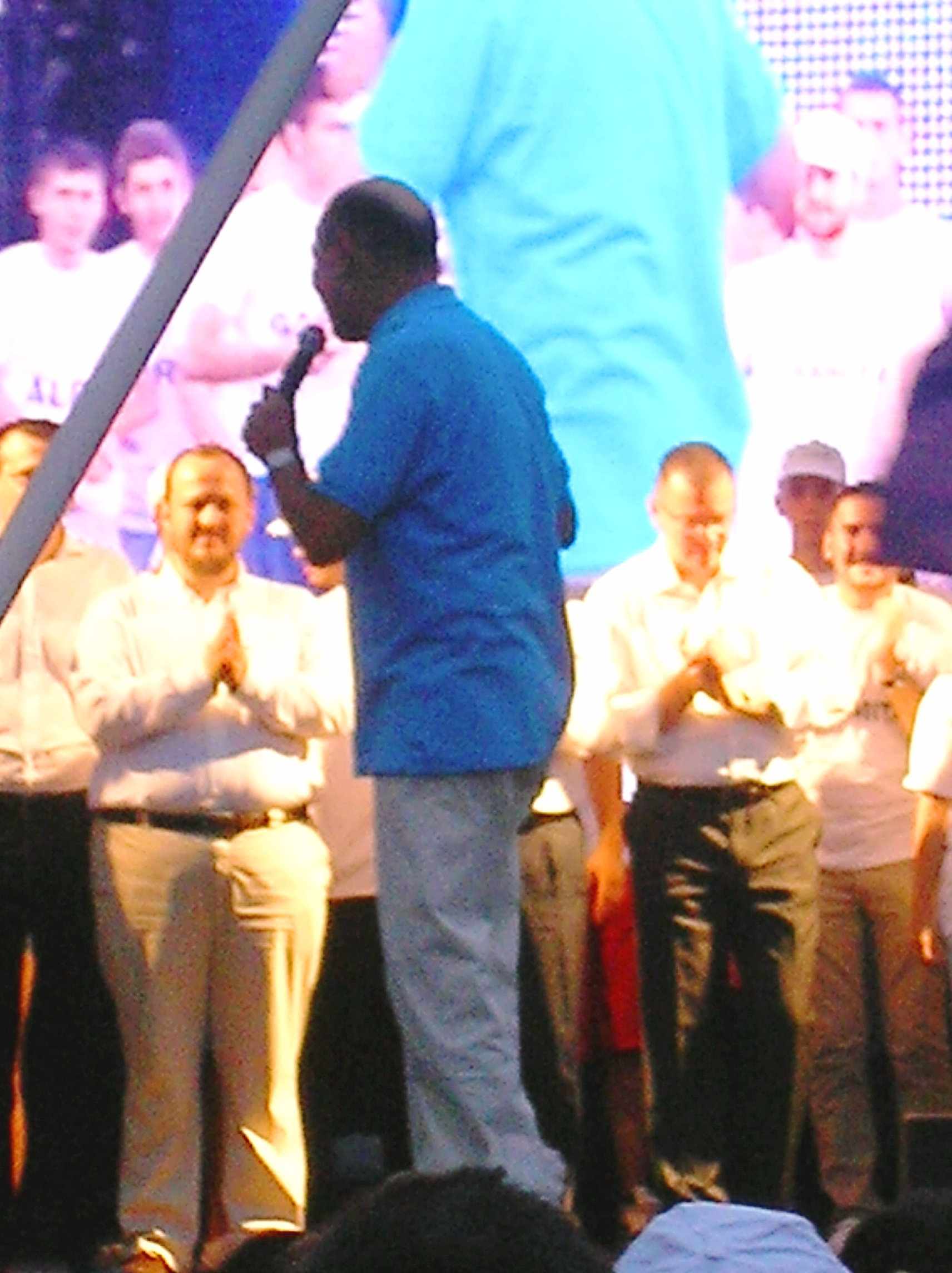 Traian Băsescu, the impeached Romanian President, attending a meeting in his support (Revolution Square, Bucharest). Facing away from the public, he introduces some of the right-wing politicians and activists supporting his cause. Left to right: Cristian Preda, MEP; Adrian Papahagi of Noua Republică; former Prime Minister Mihai Răzvan Ungureanu.